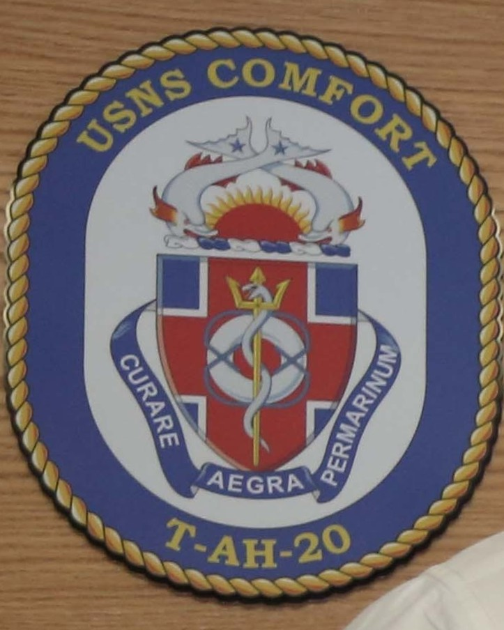 150406-A-Bk746-021 MIAMI (April 6, 2015) Dr. Jonathan Woodson, assistant secretary of Defense Health Affairs, is greeted on the quarterdeck before touring Military Sealift Command hospital ship USNS Comfort (T-AH 20) by Capt. Christine Sears, commanding officer of the Military Treatment Facility aboard Military Sealift Command hospital ship USNS Comfort (T-AH 20). Continuing Promise is a U.S. Southern Command-sponsored and U.S. Naval Forces Southern Command/ U.S. 4th Fleet-conducted deployment to conduct civil-military operations including humanitarian-civil assistance, subject matter expert exchanges, medical, dental, veterinary and engineering support and disaster response to partner nations and to show U.S. support and commitment to Central and South America and the Caribbean. (U.S. Army photo by Spc. Lance Hartung/Released)